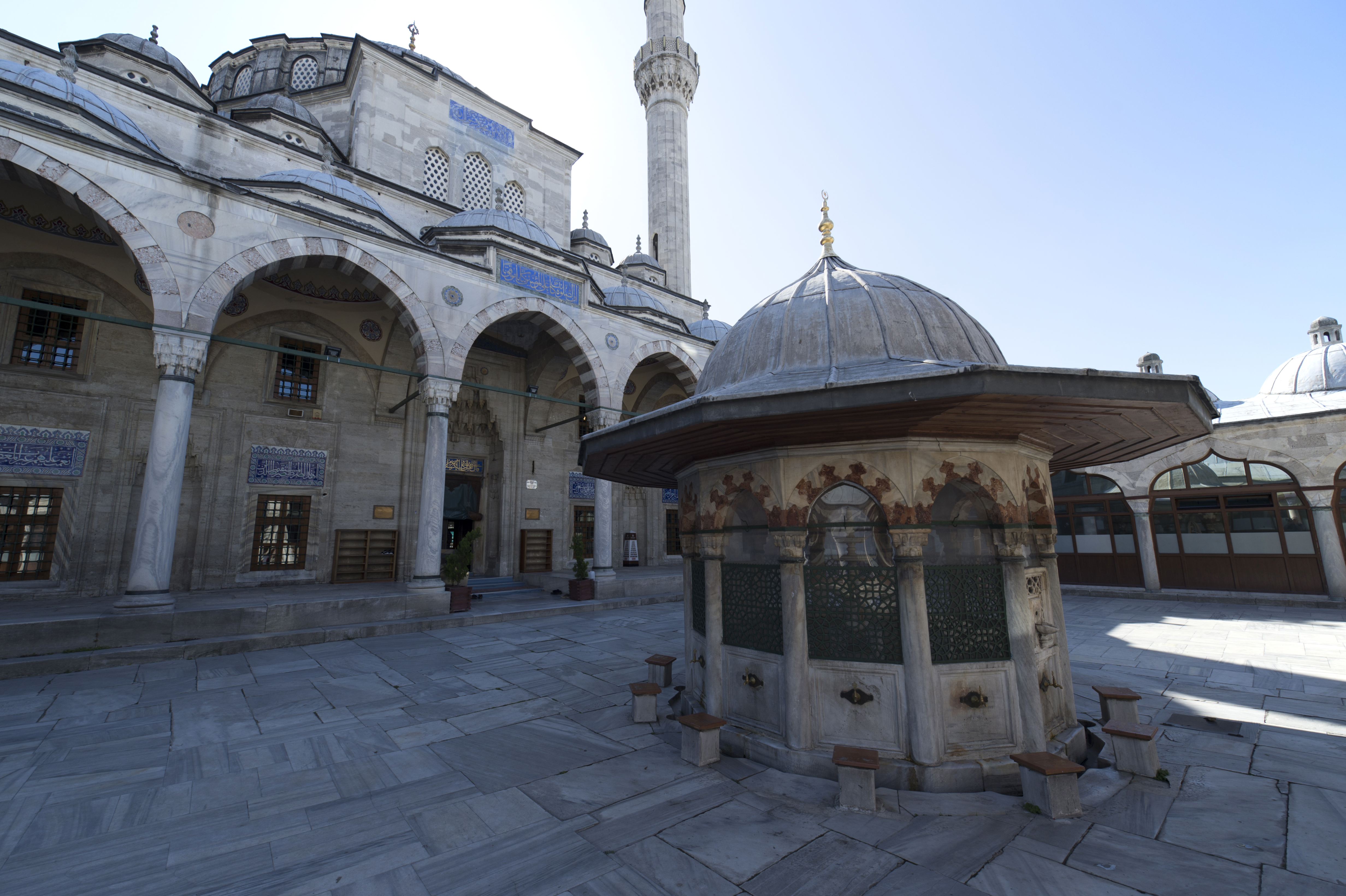 The courtyard was surrounded by cells for a medrese.